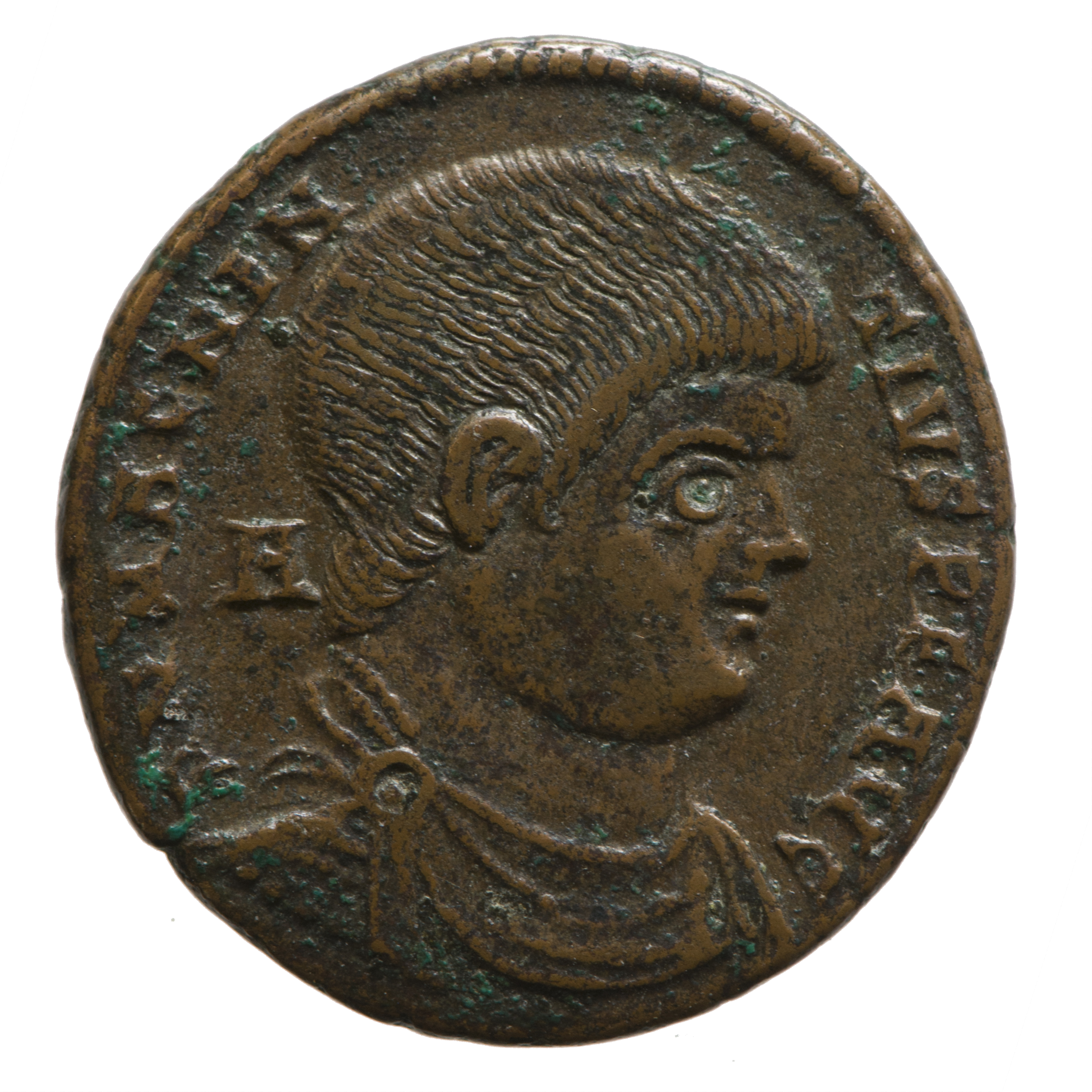 Obverse (front) of a nummus of w: Magnentius, showing head right, cuirassed, draped. Behind head A